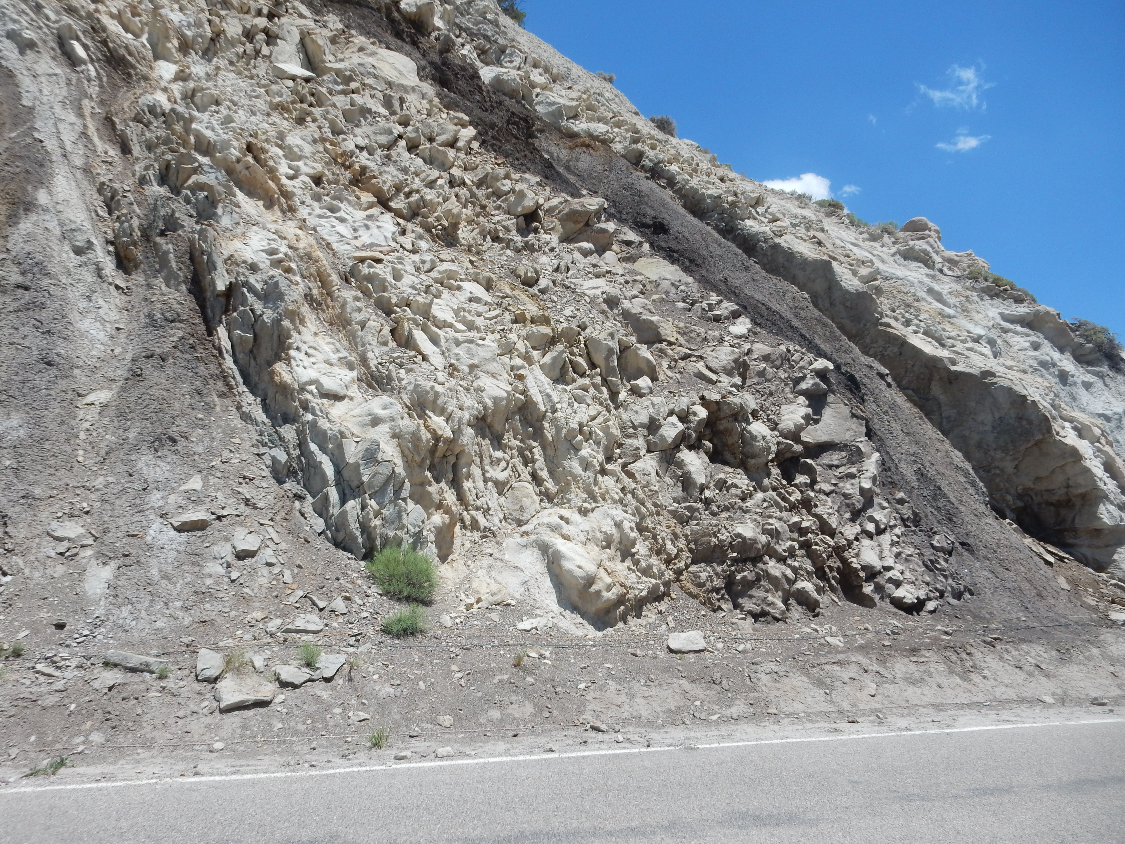 This photograph shows Menefee Formation exposed in a road cut through a hogback ridge southeast of Cuba, New Mexico.